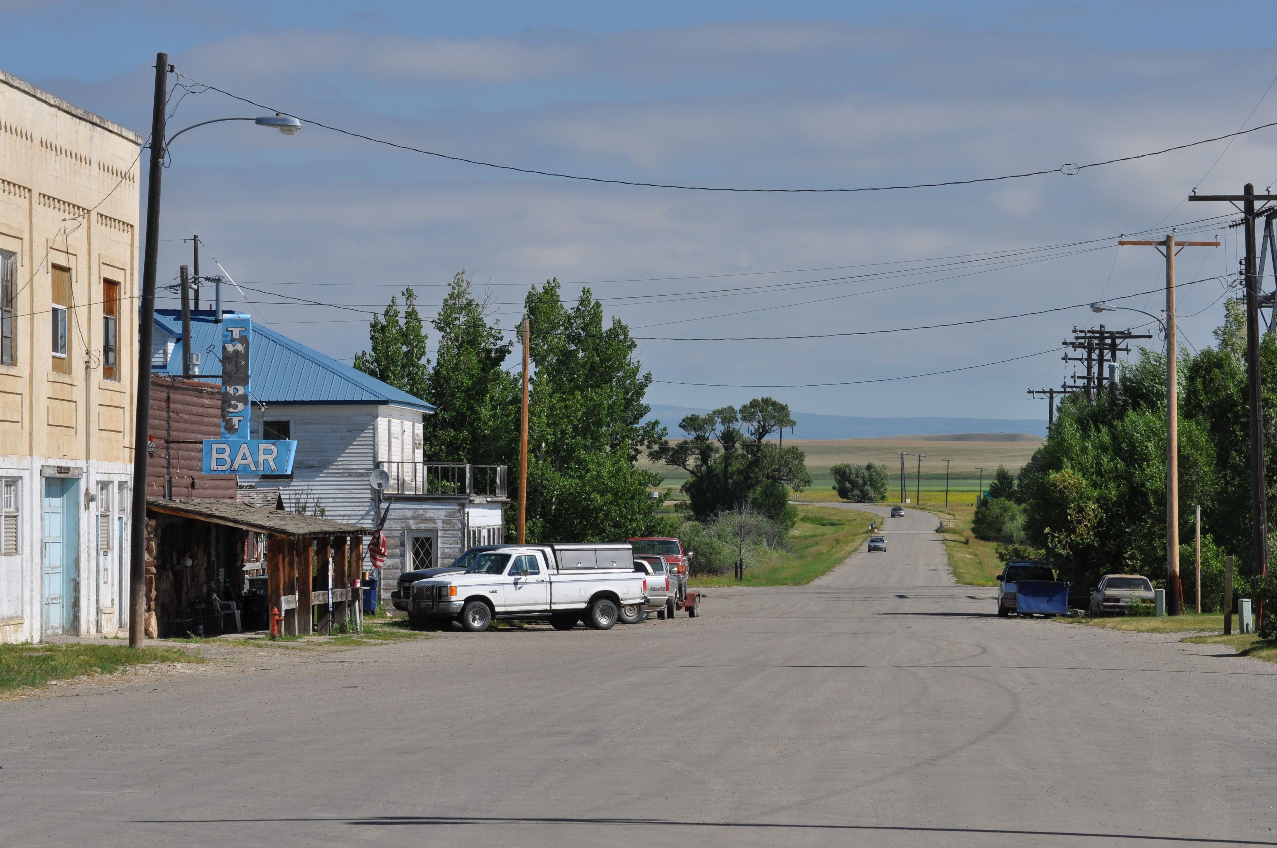 Wilson Street, Twodot, Montana, July 17, 2011